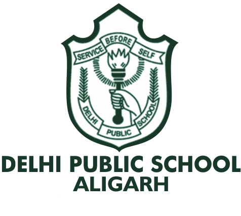 Delhi Public School Aligarh